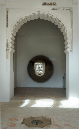 Arabic arch (13th century) of Santa Clara Museum in Murcia (Spain).